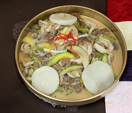 Wolgwachae - summer squash and mushrooms with seasoning in Korean royal court cuisine.